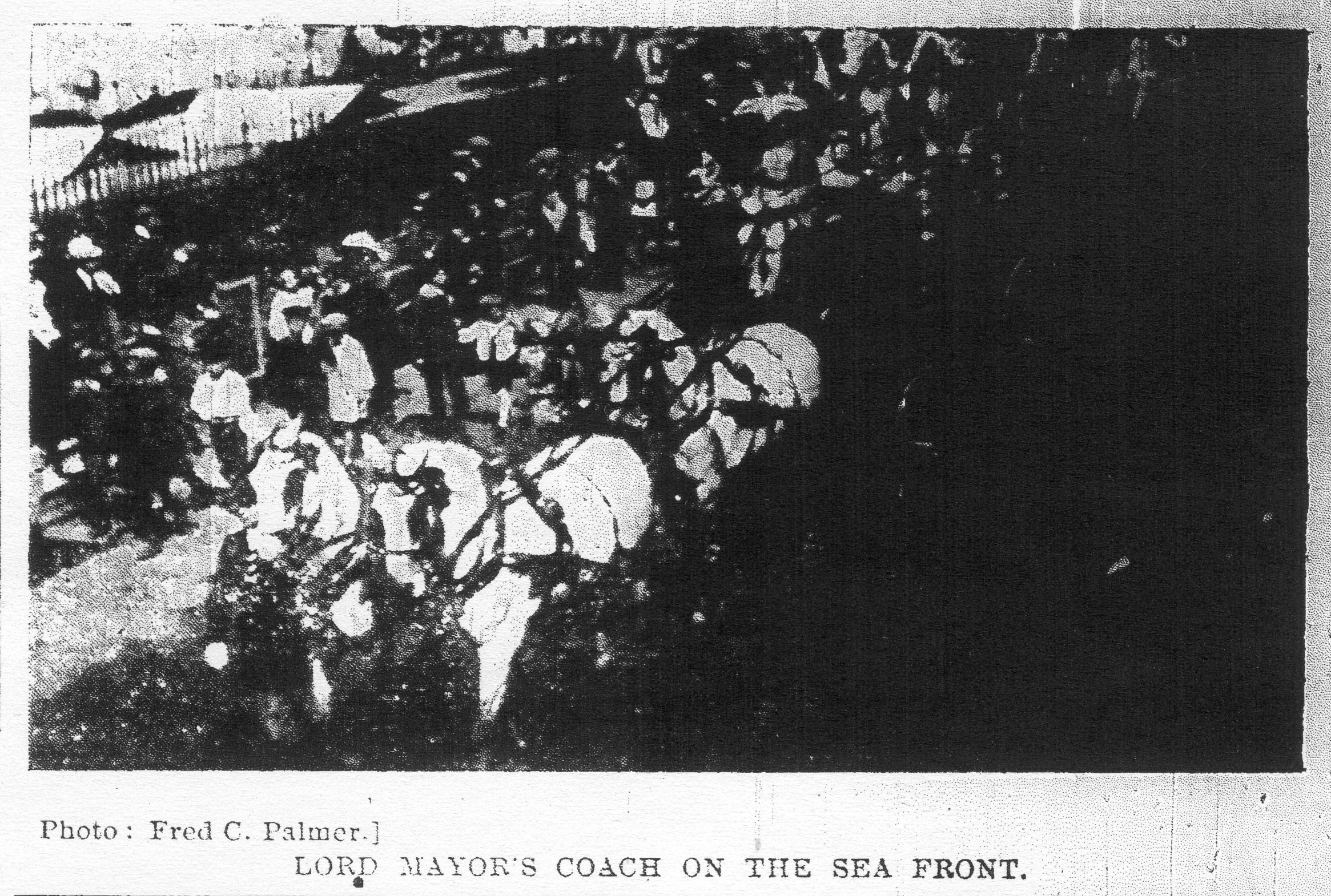 The Lord Mayor of London's procession with a retinue of Kent mayors and sheriffs along the sea front at Herne Bay on the day of the grand opening of the Grand Pier Pavilion on 3 August 1910. Photograph by Fred C. Palmer from the defunct newspaper Herne Bay Press, August 1910. The Grand Pier Pavilion burned down in 1970. Fred C. Palmer of Tower Studio, Herne Bay, Kent, is believed to have died 1936-1939.